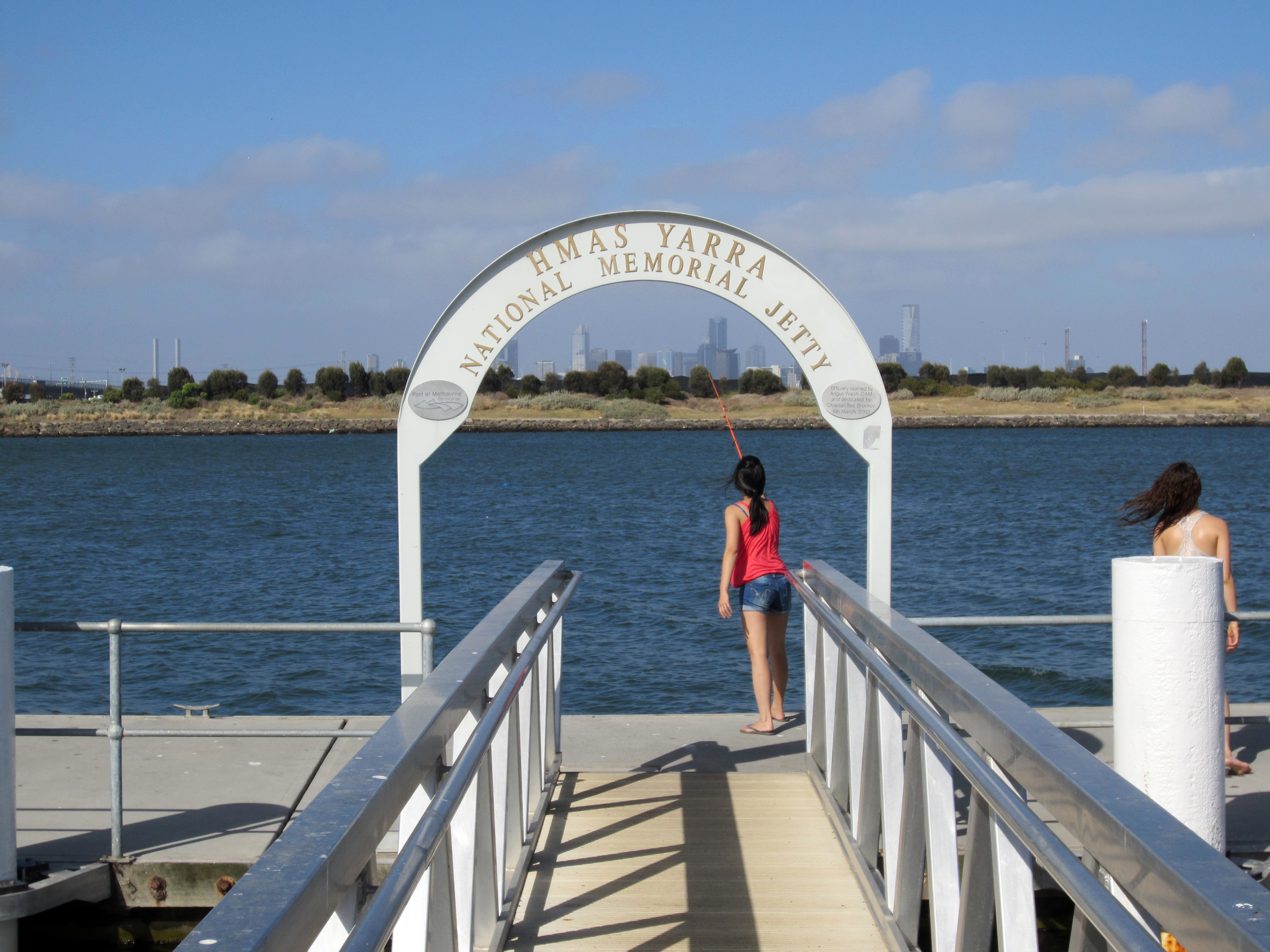 HMAS Yarra memorial jetty, Newport, Victoria